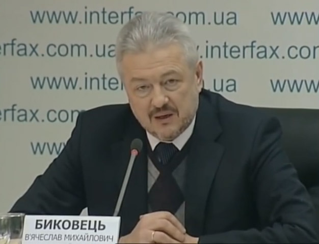 Vyacheslav Bykovets, Ukrainian activist